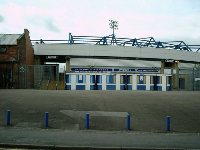 Tilton Rd entrance to Birmingham City FC. Home supporters entrance on Tilton rd.